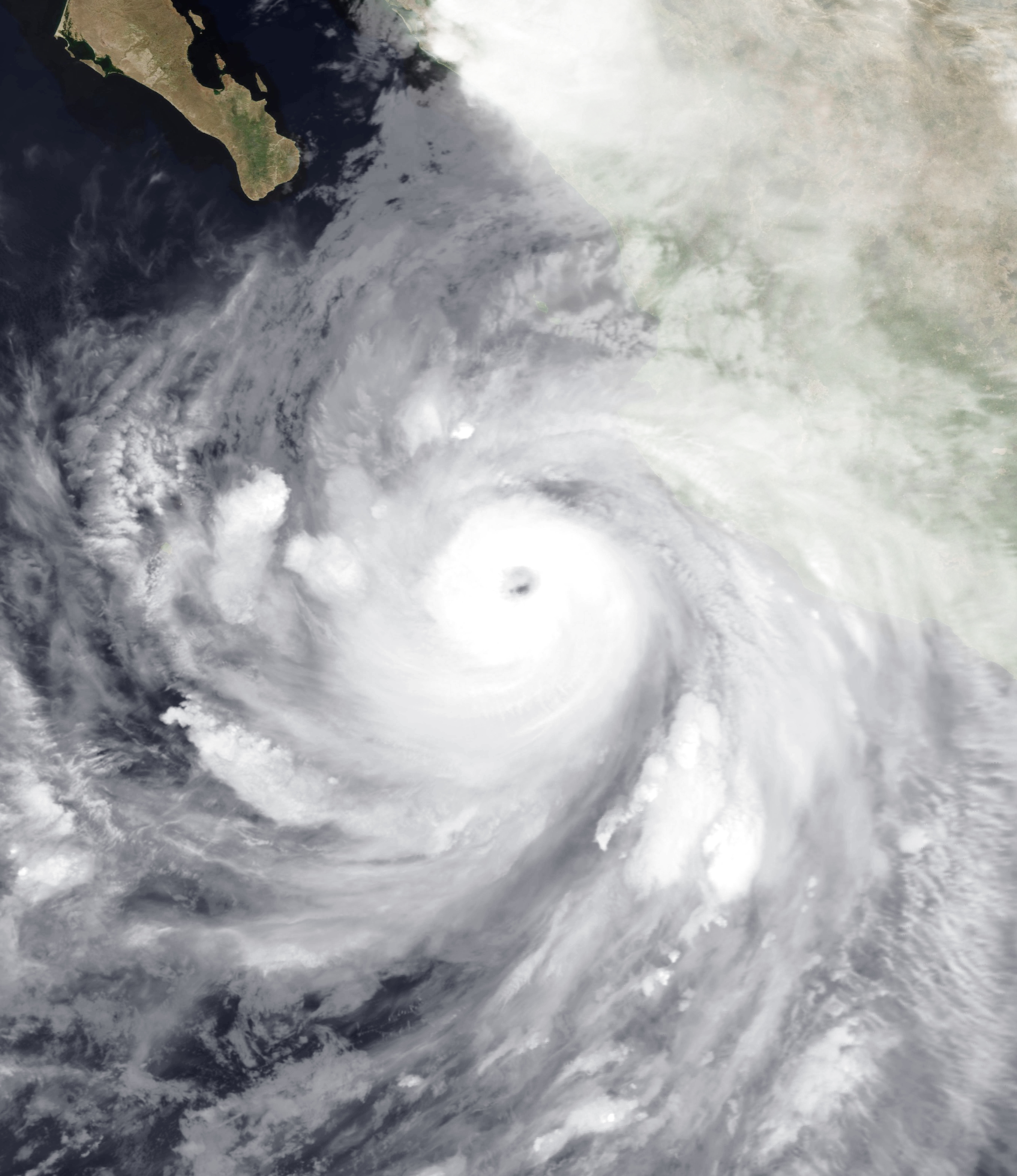 Hurricane Odile at peak intensity south of Mexico on September 14